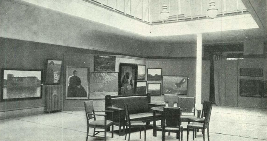 Photo of Art gallery 'Hallins konsthandel' in Stockholm 1908. Image fromthe Swedish magazine Idun 24 december 1908.